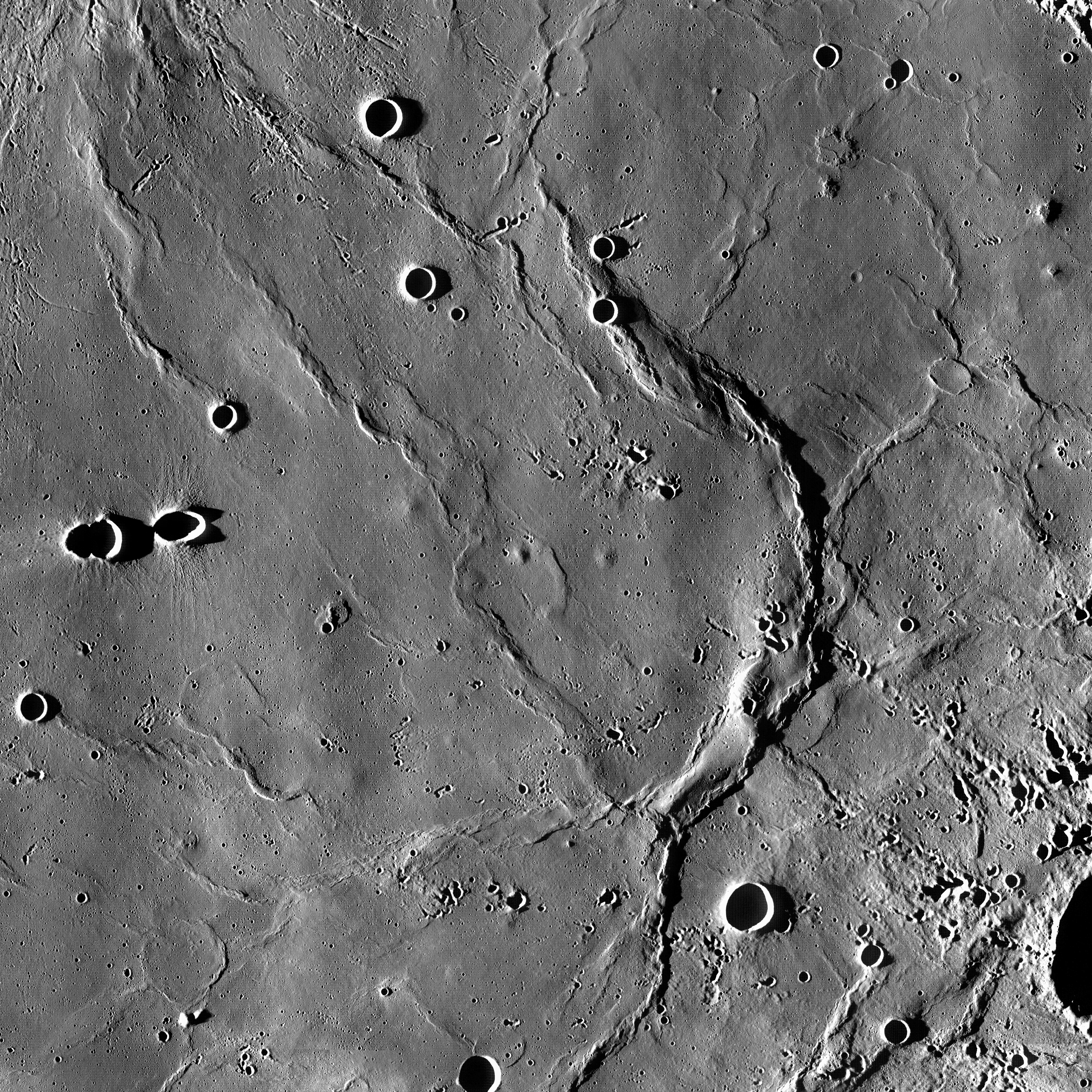 Bow of wrinkle ridges, called Dorsa Geikie, near the center of Mare Fecunditatis on the Moon. According to some suggestions, it can outline the submerged inner ring of Fecunditatis basin (e.g., Wilhelms, 1987, Wood, 2010). Craters Messier A and Messier are seen in the left, and probable group of lunar domes in the center. Mosaic of photos by Lunar Reconnaissance Orbiter, made with Wide Angle Camera in January 2010 from altitude about 40 km. Sun elevation is approximately 4°. Width of the photo is approximately 300 km, north is approximately up.